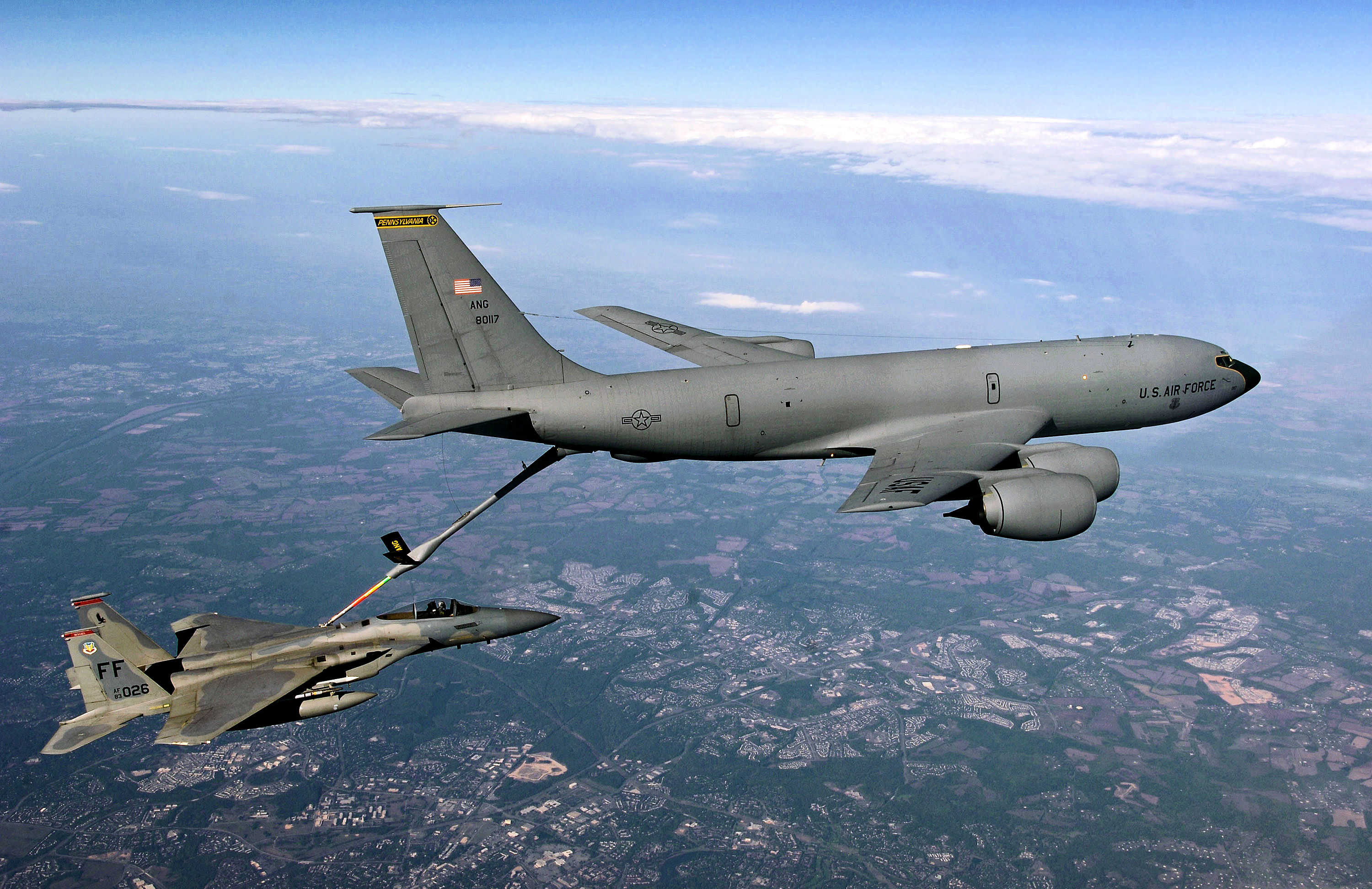 During a combat air patrol mission, an F-15 Eagle piloted by Capt. Matt Buckner receives fuel from a KC-135 Stratotanker assigned to the Pennsylvania Air National Guard's 171st Air Refueling Wing Oct. 7 over Washington D.C. The mission was in support of Operation Noble Eagle. Capt. Buckner is assigned to the 71st Fighter Squadron at Langley Air Force Base, Va. (U.S. Air Force photo/Staff Sgt. Samuel Rogers)